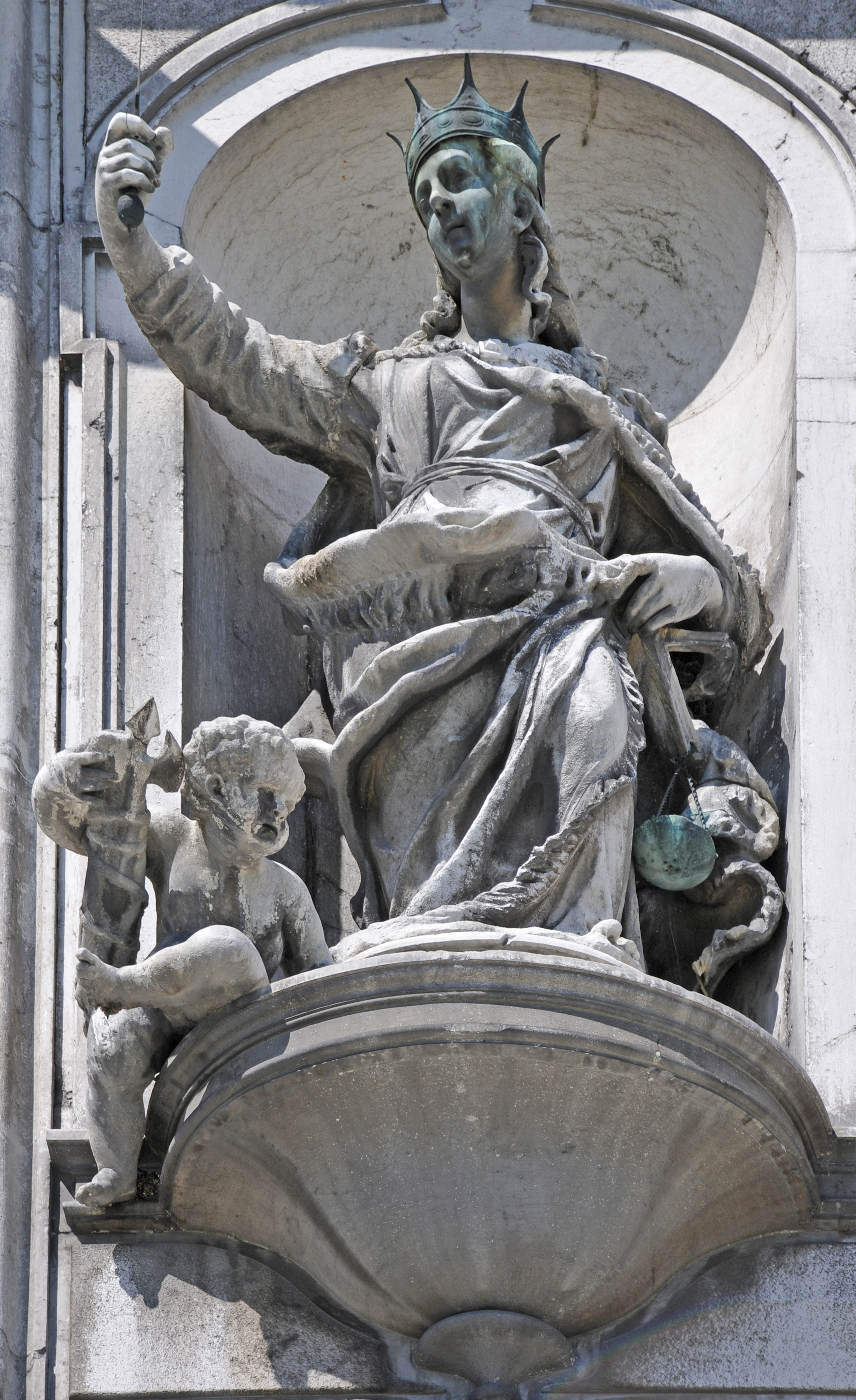 Statue of allegory of Justice by Francesco Bonazza on the church of Santa Maria del Rosario (Venice)